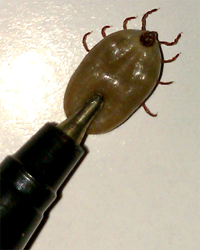 A tick found a German Shepherd Dog coat.